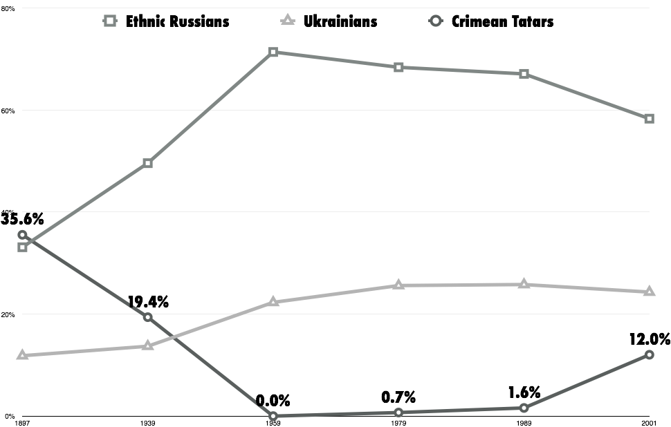 Crimean Tartar population in comparison to ethnic Russians and Ukrainians living in Crimea 1897–2001